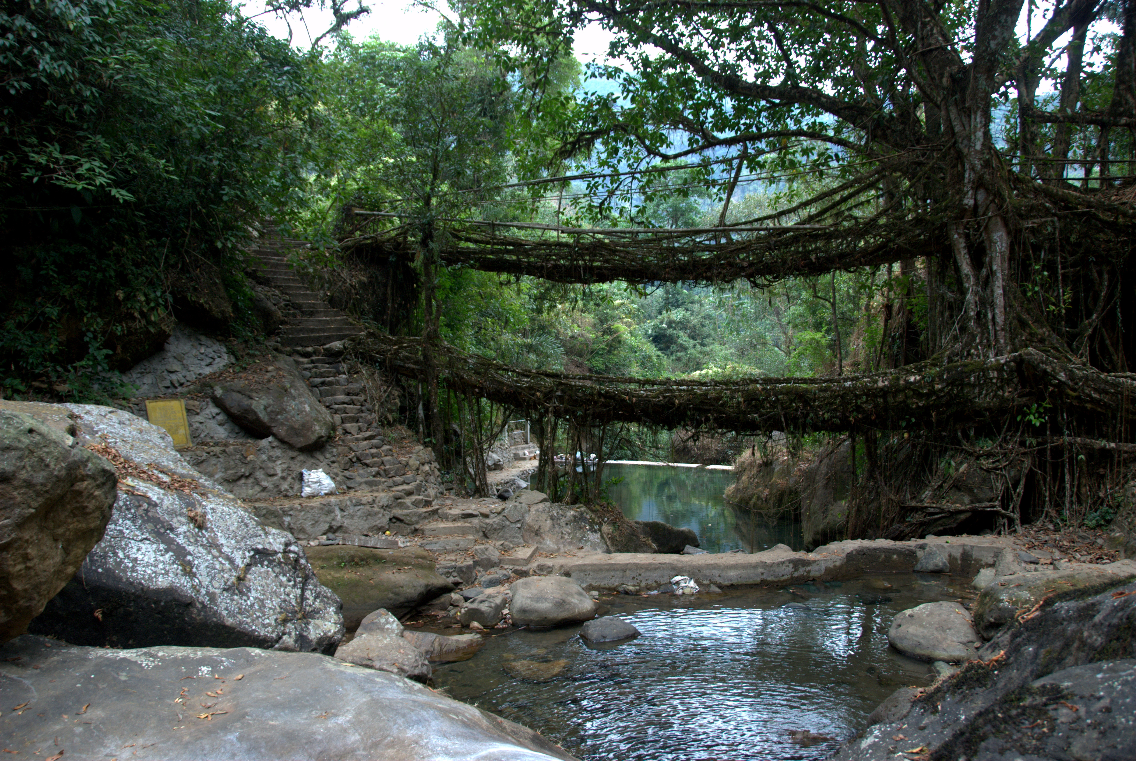 Living root Bridges are built in the deep valleys of East Khasi hills in central Meghalaya, Northeast India. The people of these villages (Nongriat, Laitkynshew and others) are isolated from rest of the world as these are located in a deep valleys which can only be reached by an arduous trek. Now though the situation is better as there are steps built to visit the valley. You have to descend and climb more than 2100 steps at a time. Since these valleys were inaccessible for a long time people came with this ingenious solution to cross rivers which were very full due to tremendous rainfalll in the monsoon. They plant the strangler fig trees on both sides and once they grow they use guides such as bamboo poles or string for the roots to grow around them. Then in 10-15 years (mostly more), a bridge is grown. This is multi-generational effort. these bridges are extremely durable an last 5 to 6 centuries.